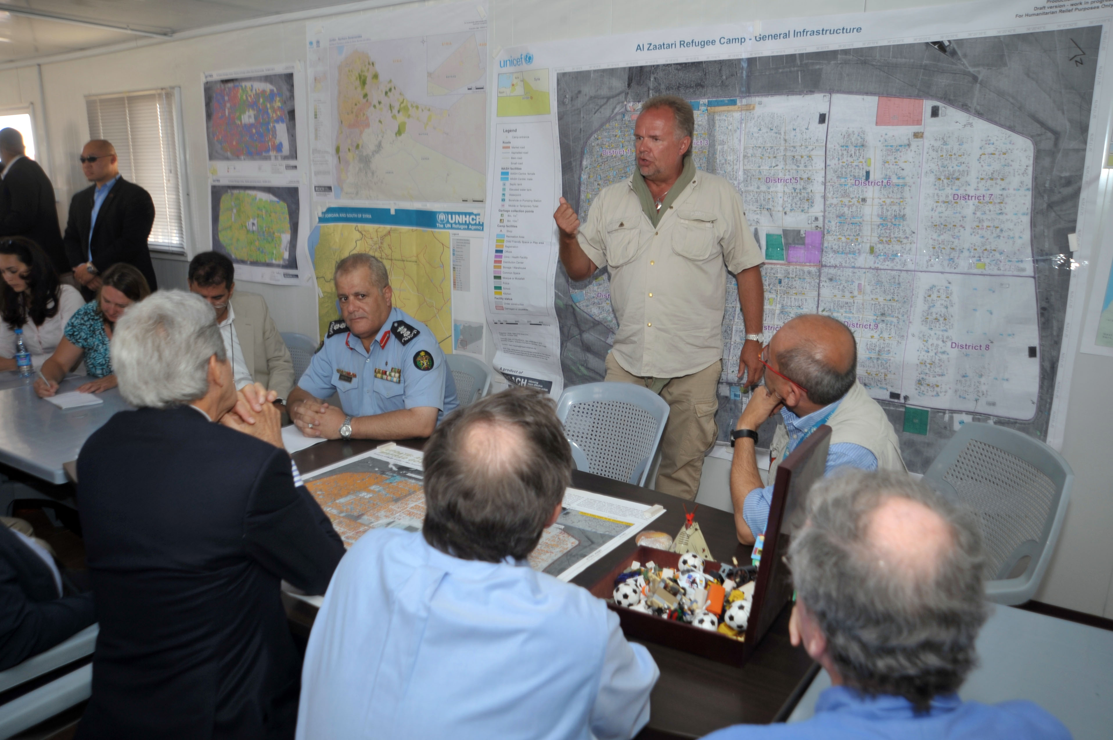 Camp Director Kilian Kleinschmidt of the Office of the United Nations High Commissioner for Refugees briefs U.S. Secretary of State John Kerry about the Za'atri camp for Syrian refugees during a visit on July 18, 2013. [State Department photo/ Public Domain]